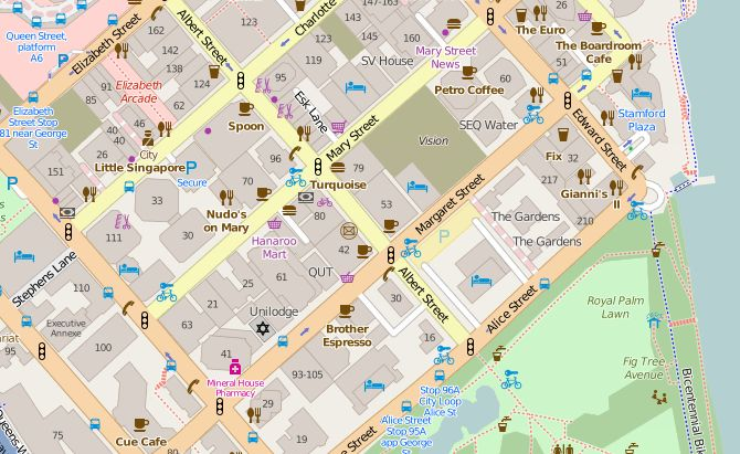 Open Street Map - Frog's Hollow